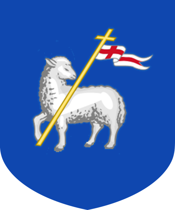 Agnusdio family shield